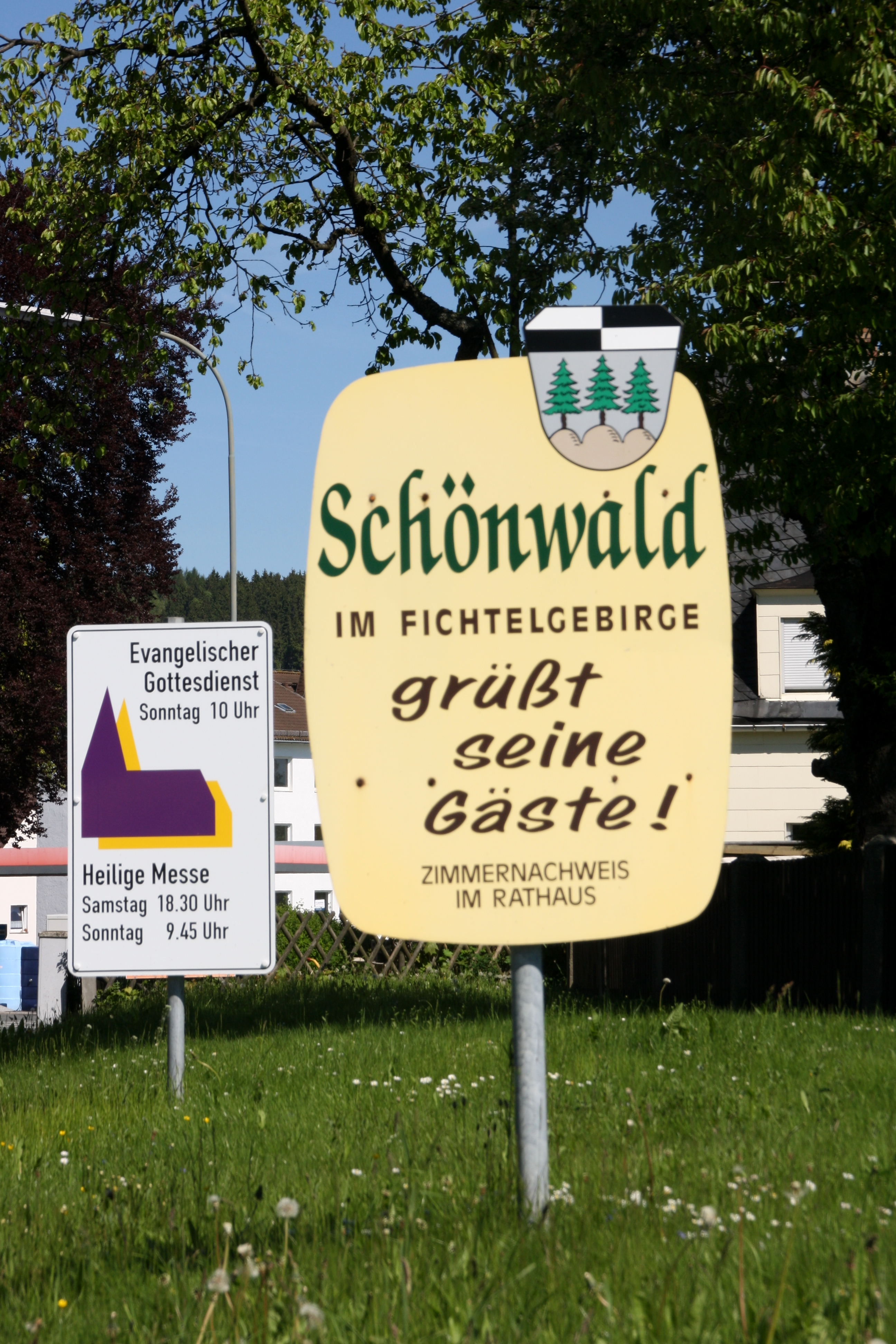 Welcoming signs at the entrance of Schönwald